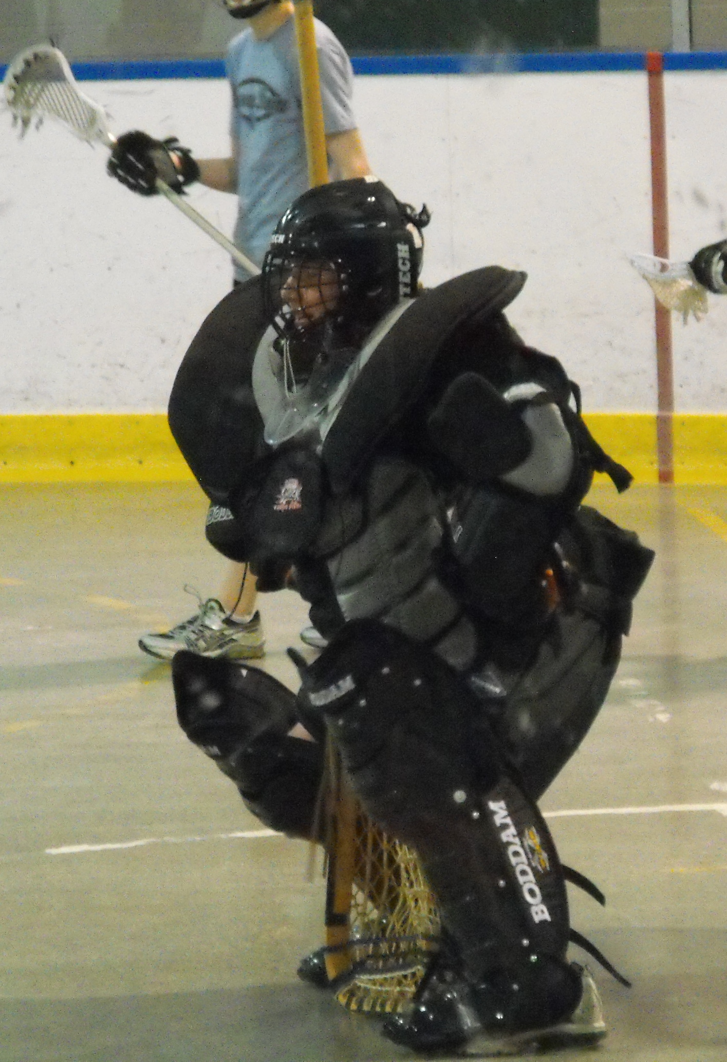 Cooper Cecile, Windsor Warlocks practice 2009.